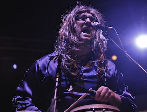 Eric Wareheim performing as Tim & Eric Awesome Show, Great Job! (photo by Scott Dudelson)